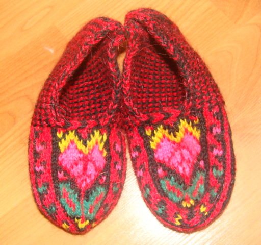 Dagestan jorabs created by Наталья Агаева